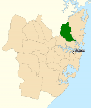 Incorporates or developed using Administrative Boundaries ©PSMA Australia Limited licensed by the Commonwealth of Australia under Creative Commons Attribution 4.0 International licence (CC BY 4.0). Derived from State and Territory Boundaries from the Australian Bureau of Statistics under Creative Commons Attribution 2.5 Australia license (CC BY 2.5 AU)